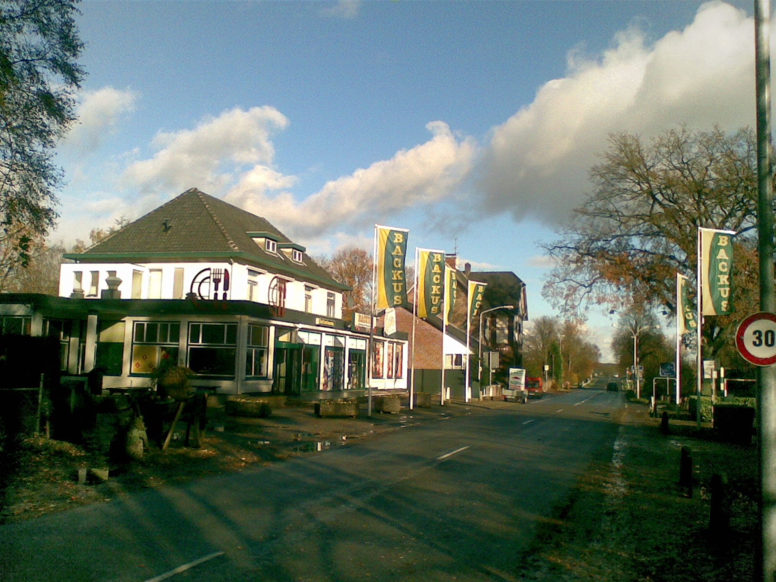 Backus Café, in Venlo, Netherlands. This was the site of the Venlo Incident in 1939; the German border is visible in the background.